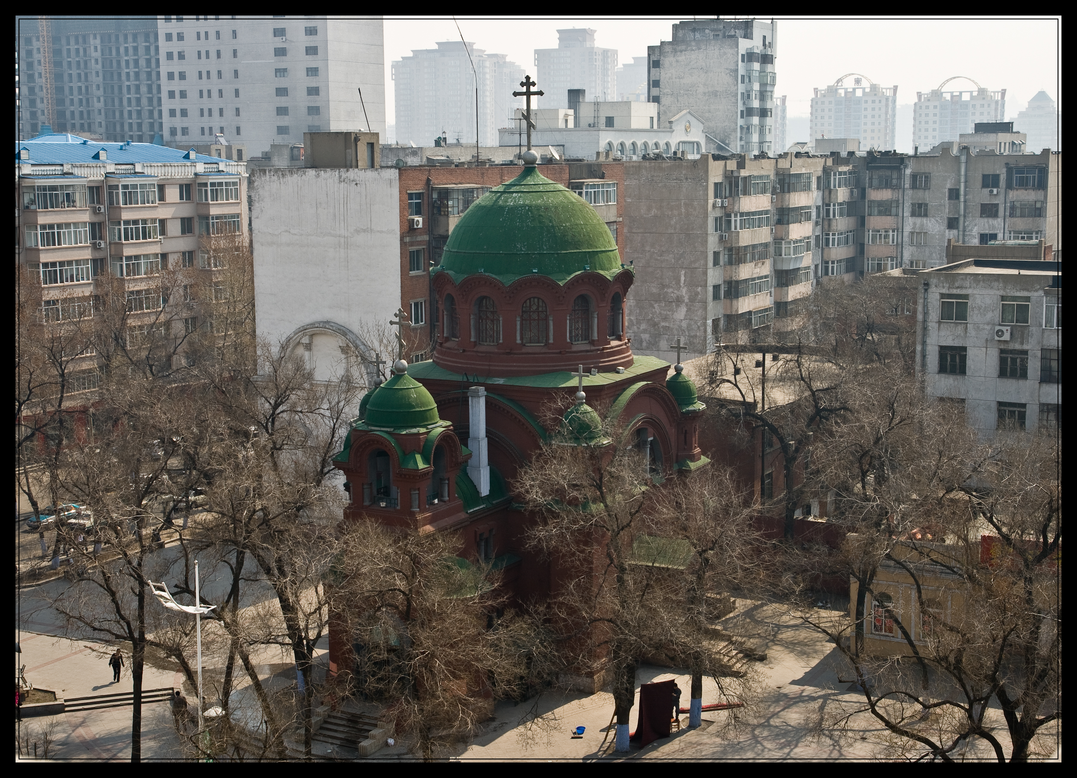 These were taken back in 2008